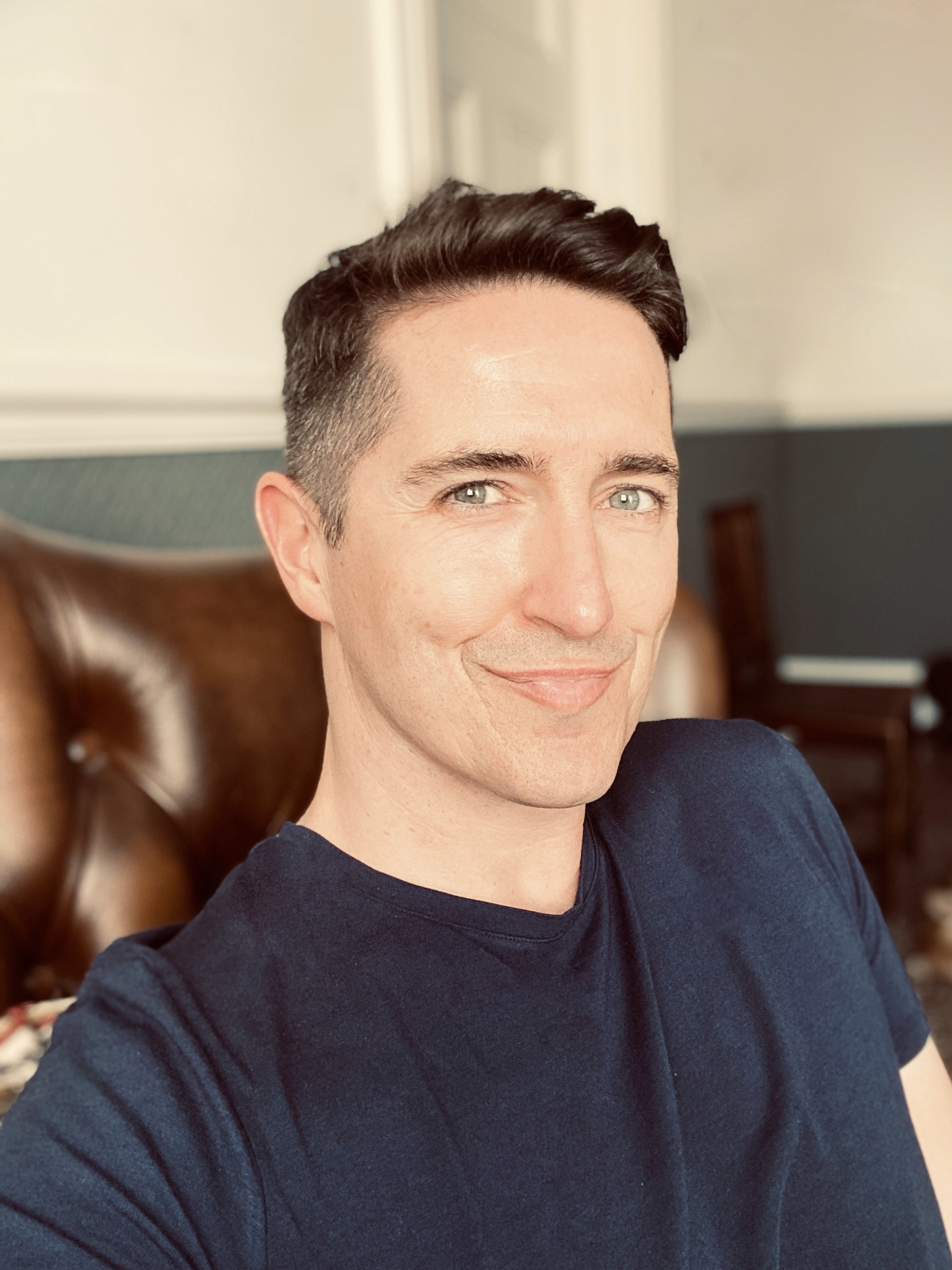 Robert Evans. Writer. 2020